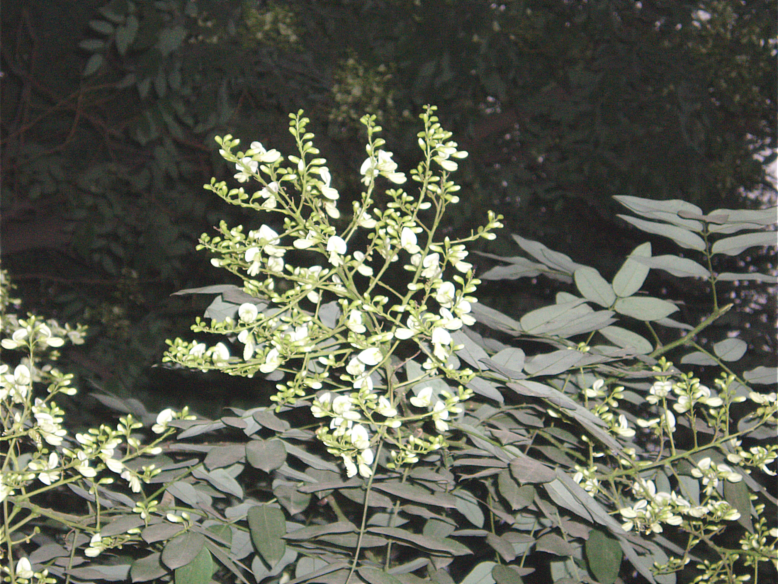 Flowers of pagoda tree